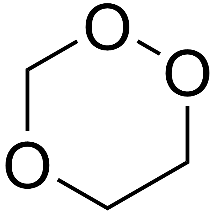 chemical structure of 1,2,4-trioxane